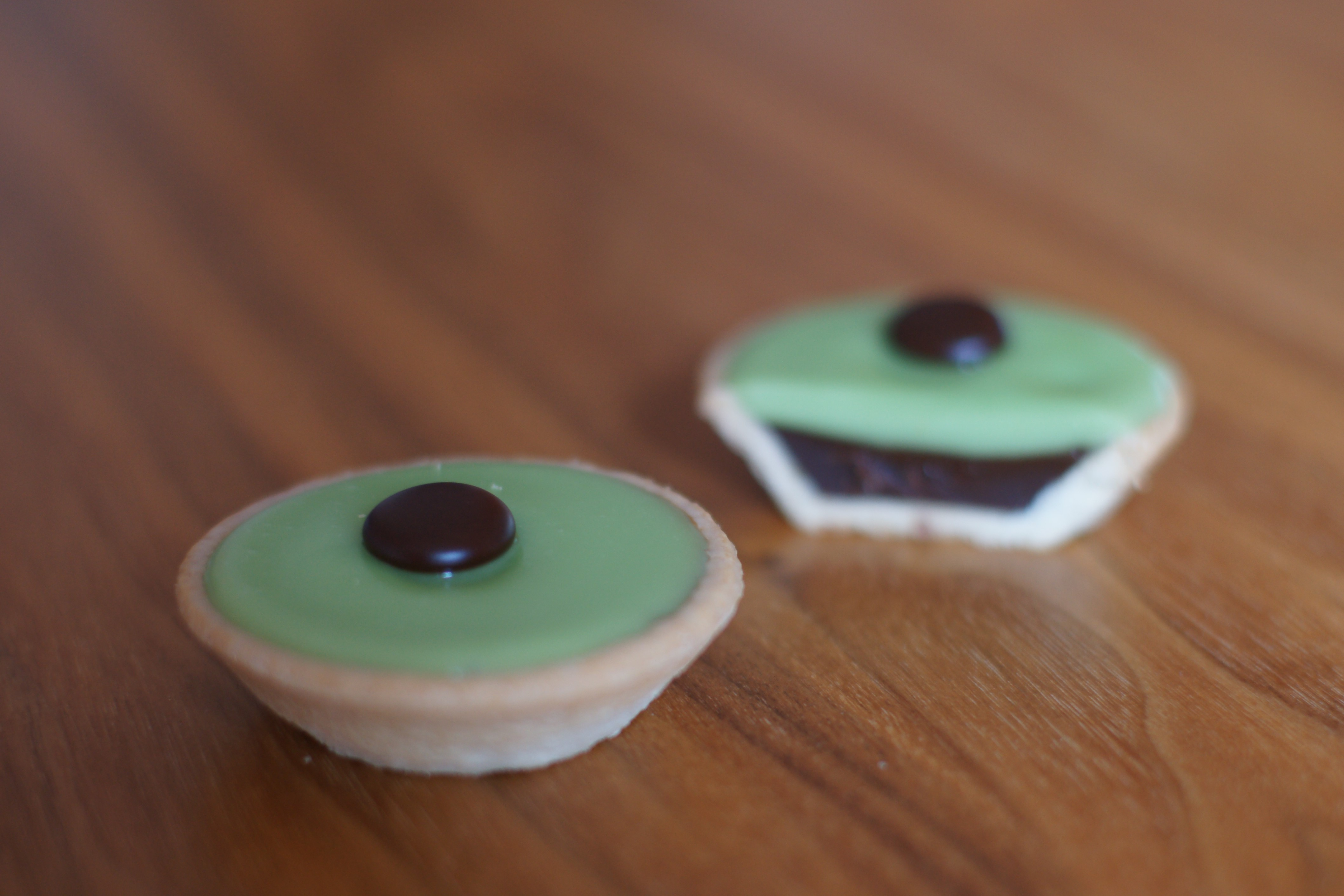 Carac are pastries from Western Switzerland.